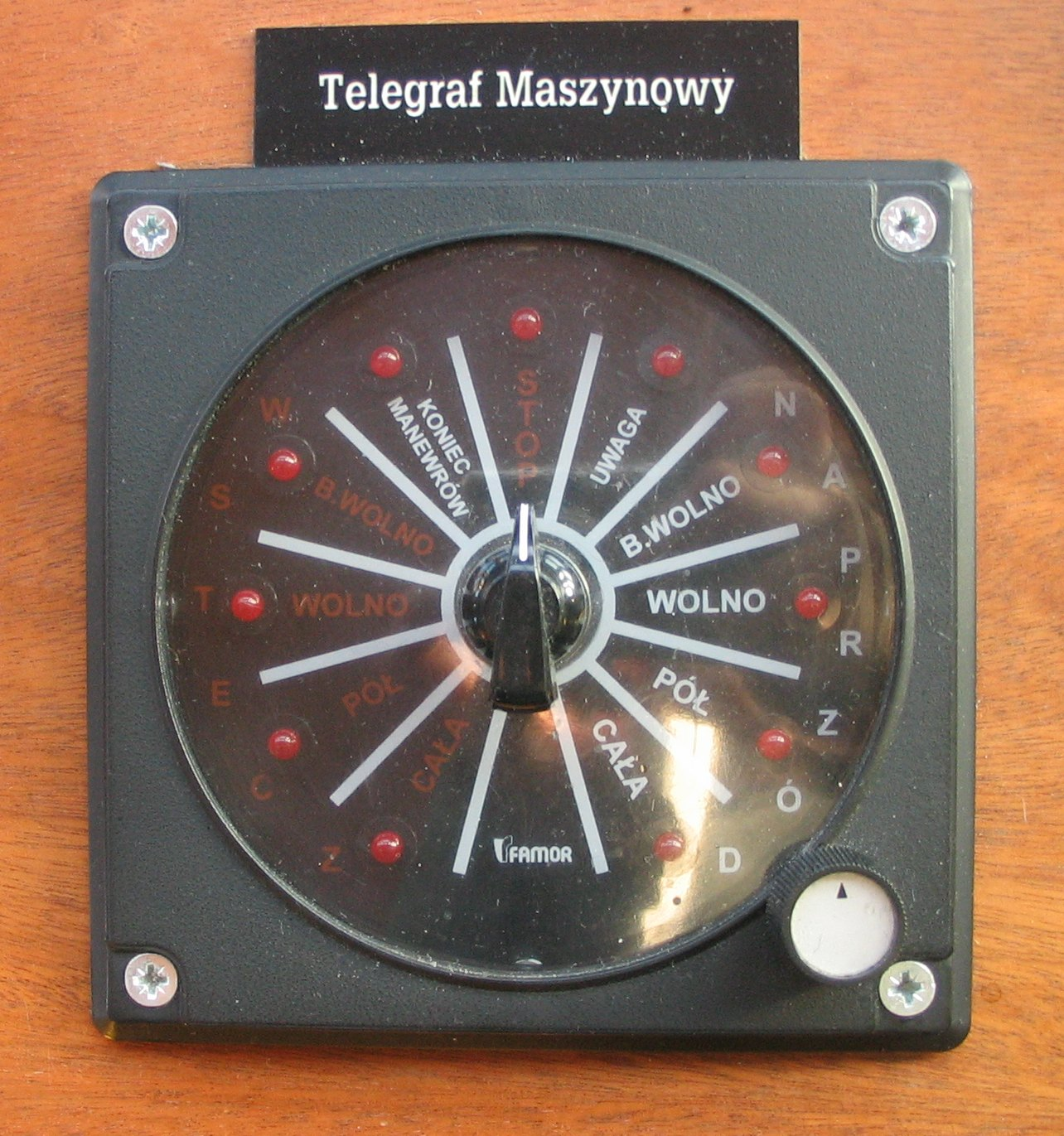 Chadburn on STS Dar Młodzieży